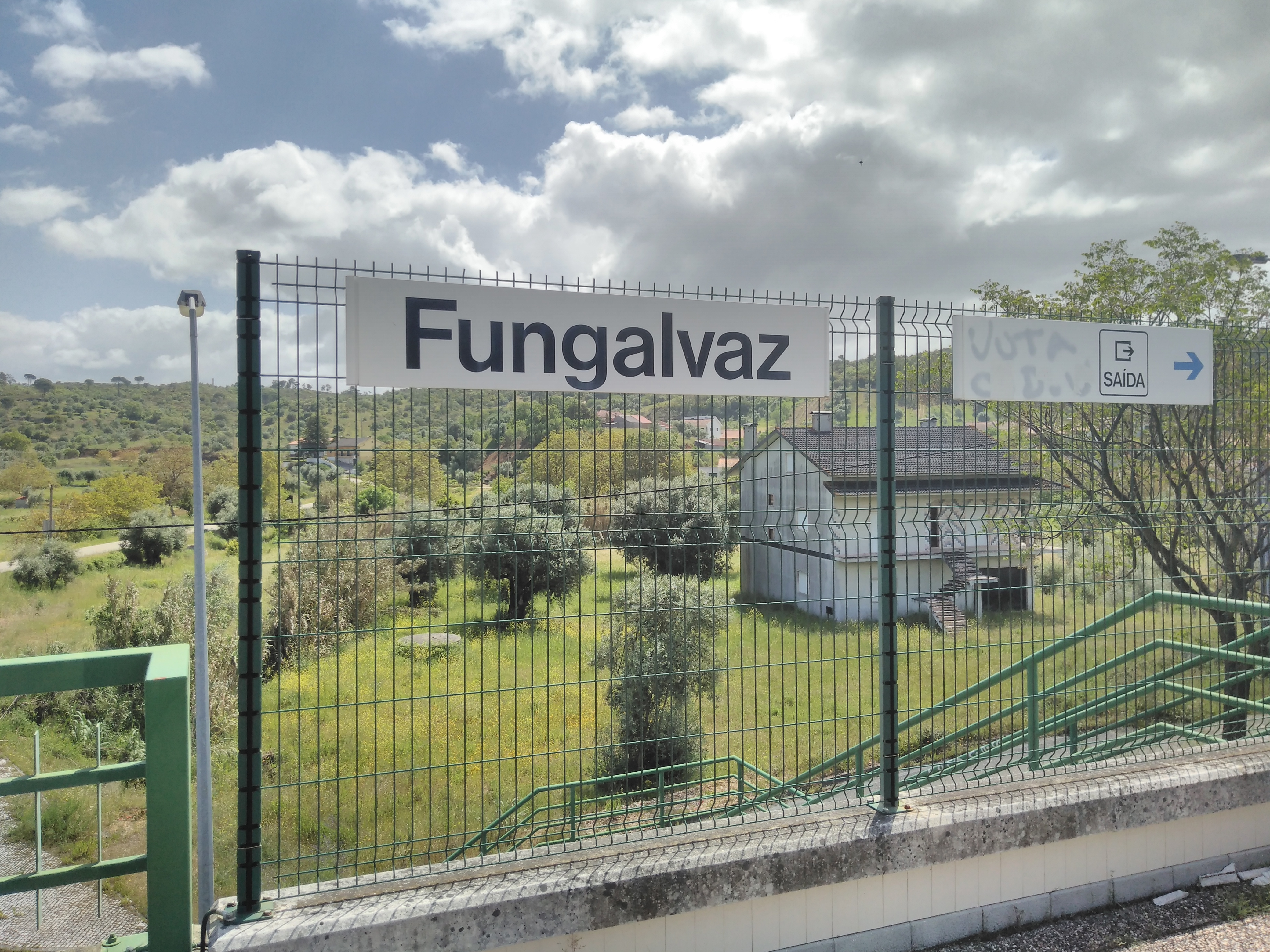 Fencing and sign for Fungalvaz halt